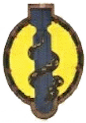 Emblem of the 381st Bombardment Group (World War II)